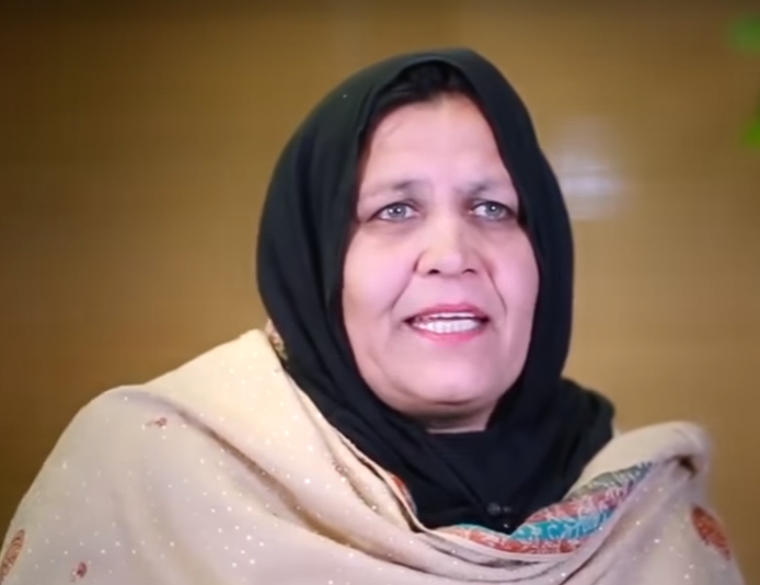 Professor Aqeela Asifi who won the 2015 UNHCR Nansen Refugee Award for her work with refugees - these are screengrabs from a freely licensed youtube